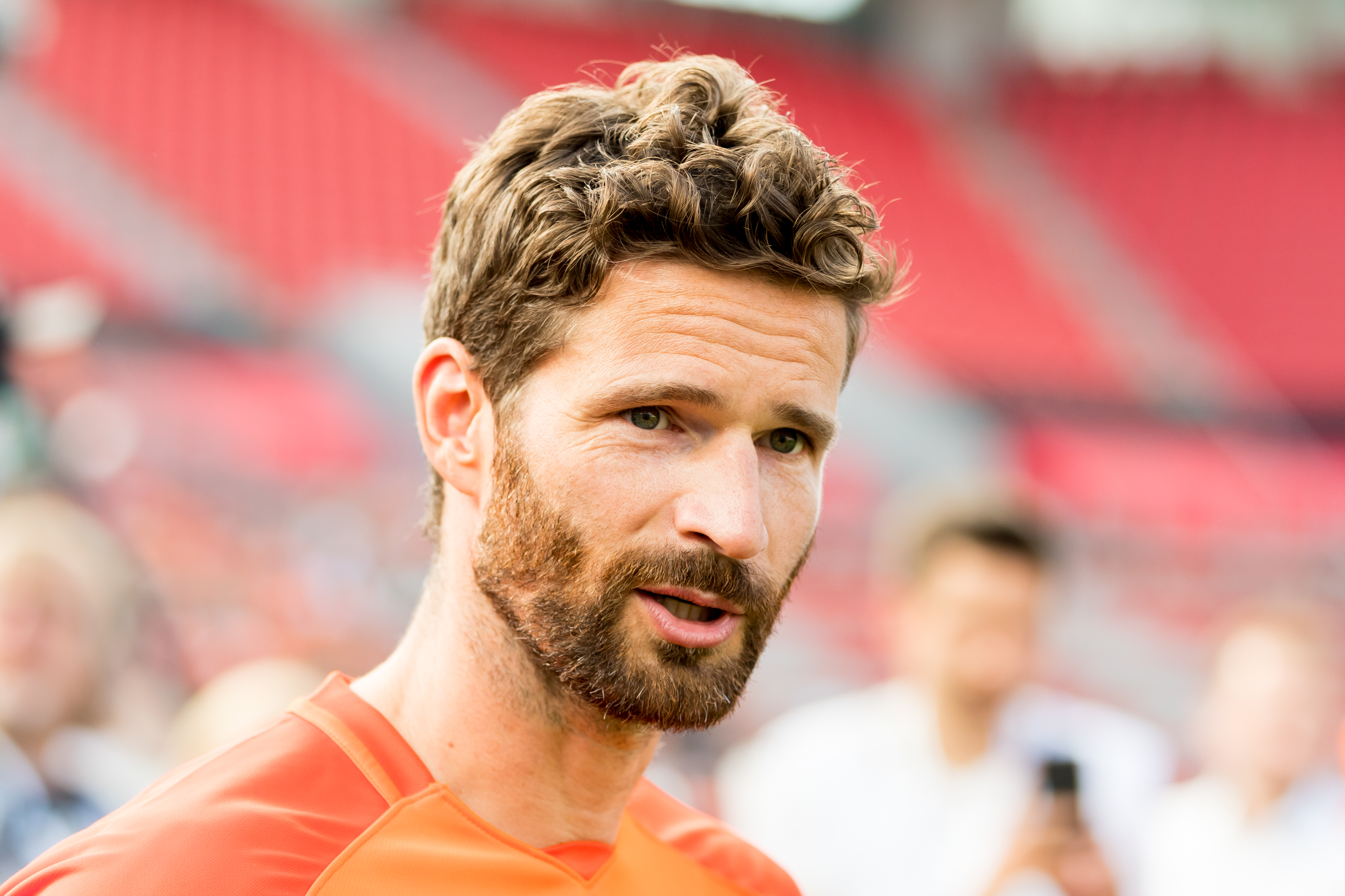 Arne Friedrich during Champions for Charity at BayArena, Leverkusen, Nordrhein-Westfalen, Germany on 2019-07-21, Photo: Sven Mandel